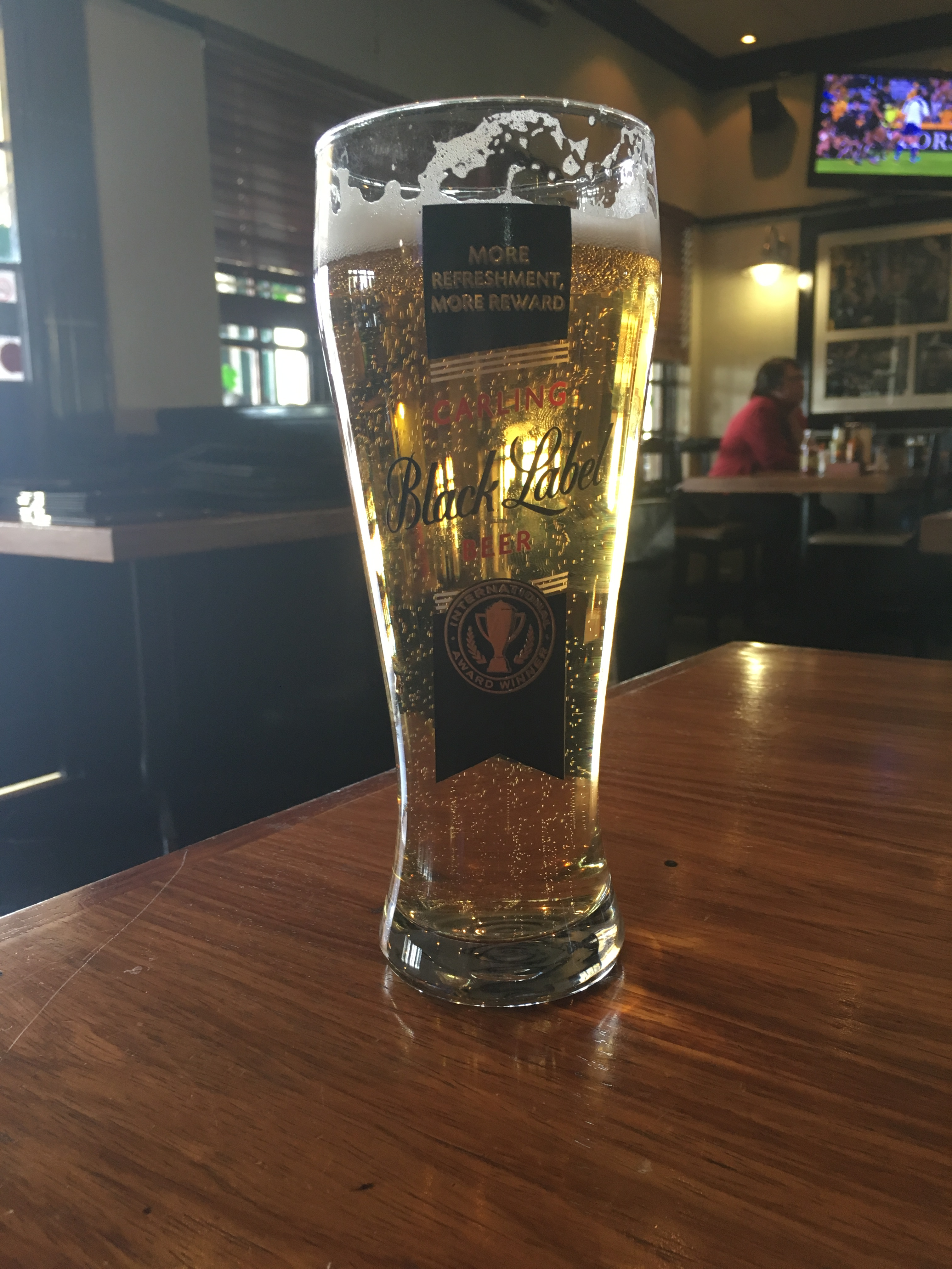 A Carling Black Label Draught in a Johannesburg Pub - August 2016